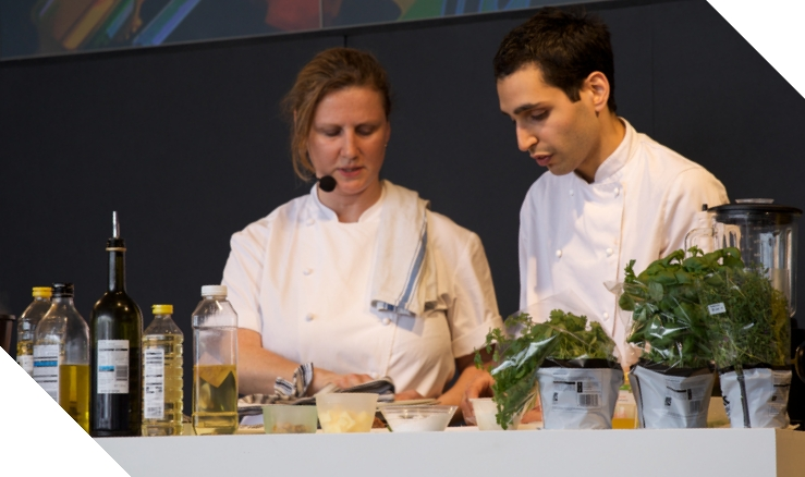 Angela Hartnett at Taste of London 2009 during her cooking demo.